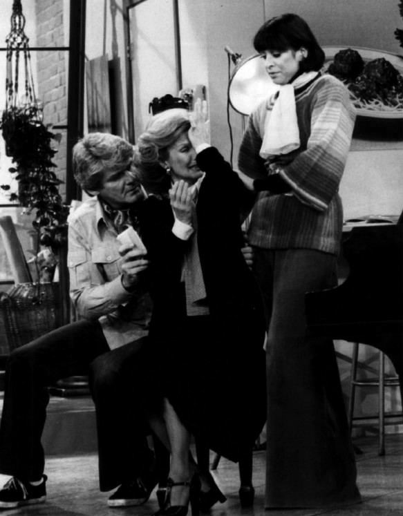 Publicity photo from the television program Phyllis. Pictured are Richard Schaal, Cloris Leachman and Liz Torres. In this episode, Phyllis' interest in music doesn't turn out the way she planned.